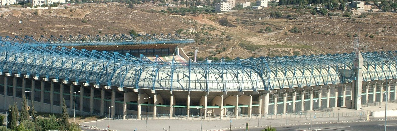 Teddy Stadium from Holliland